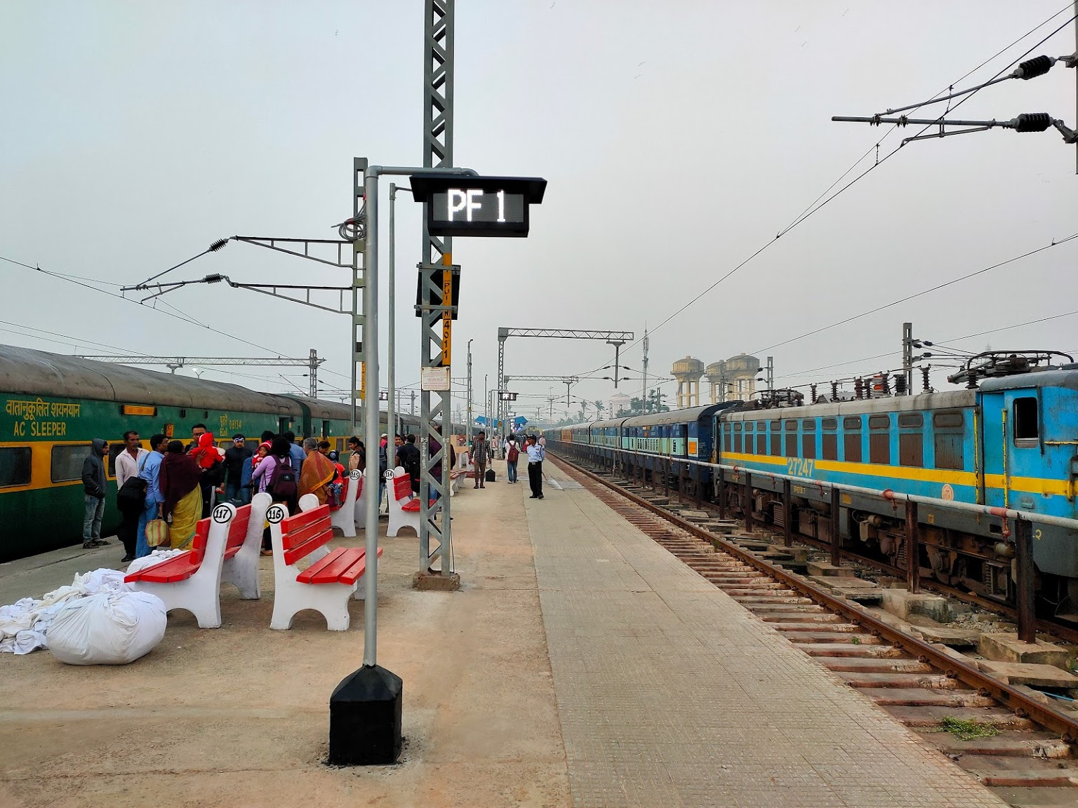 This is the Picture of PURI Railway Station